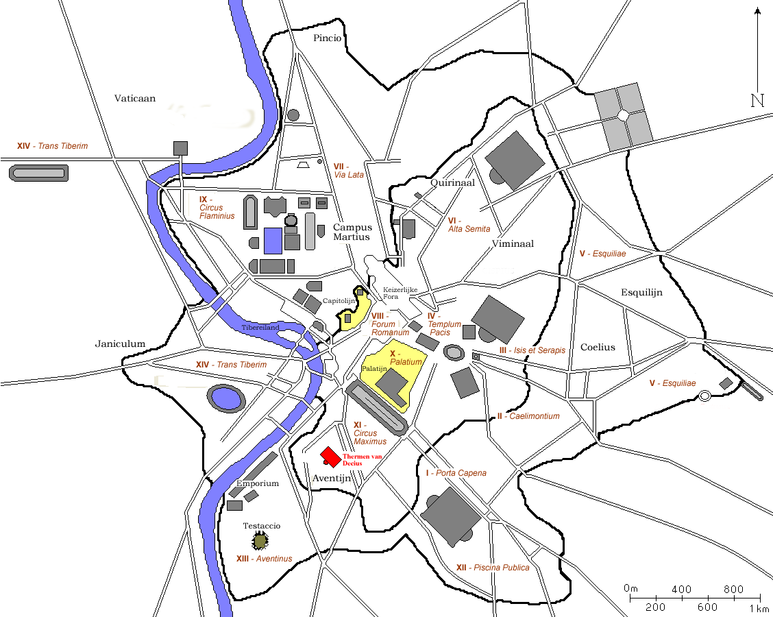 Baths of Decius on a map of ancient Rome around 300 AD